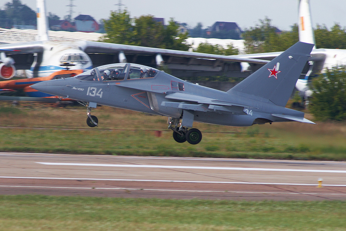 Yak-130 on MAKS 2011